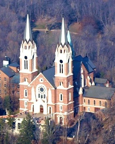 Holy Hill Basilica taken from the Air